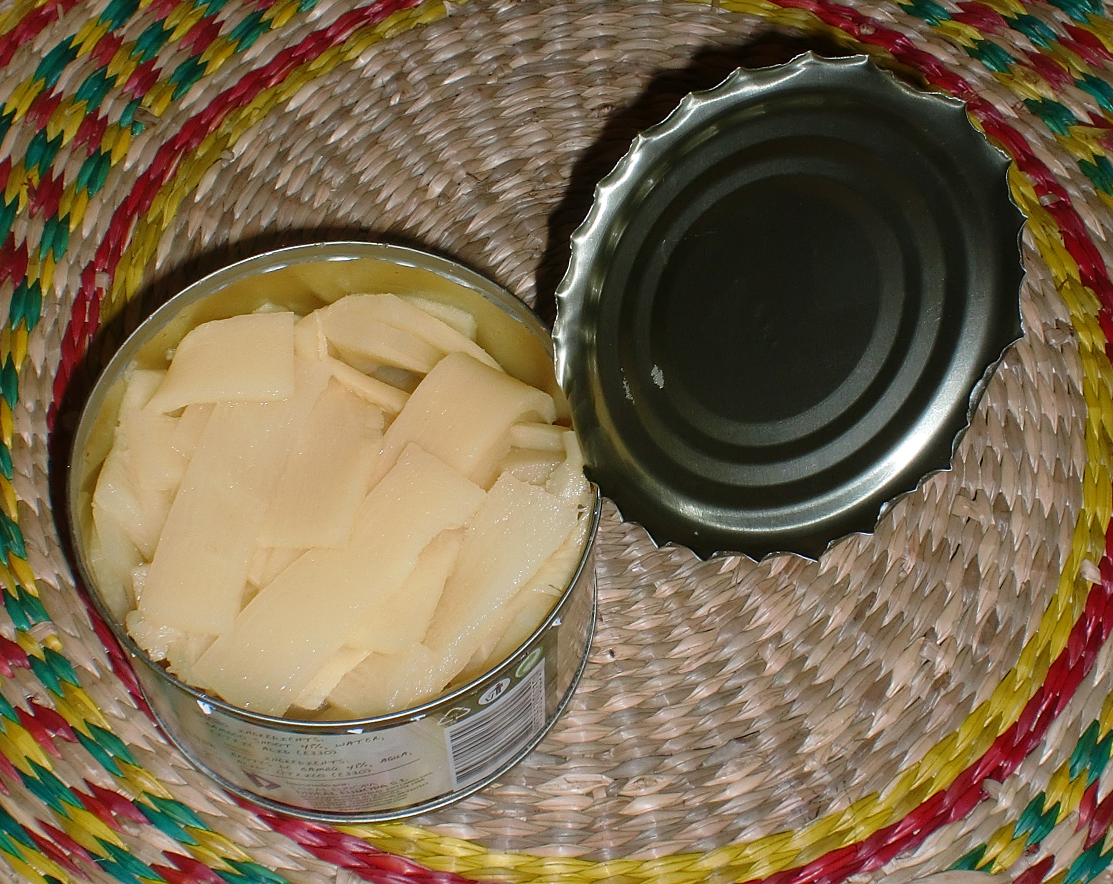 Bamboo sprouts